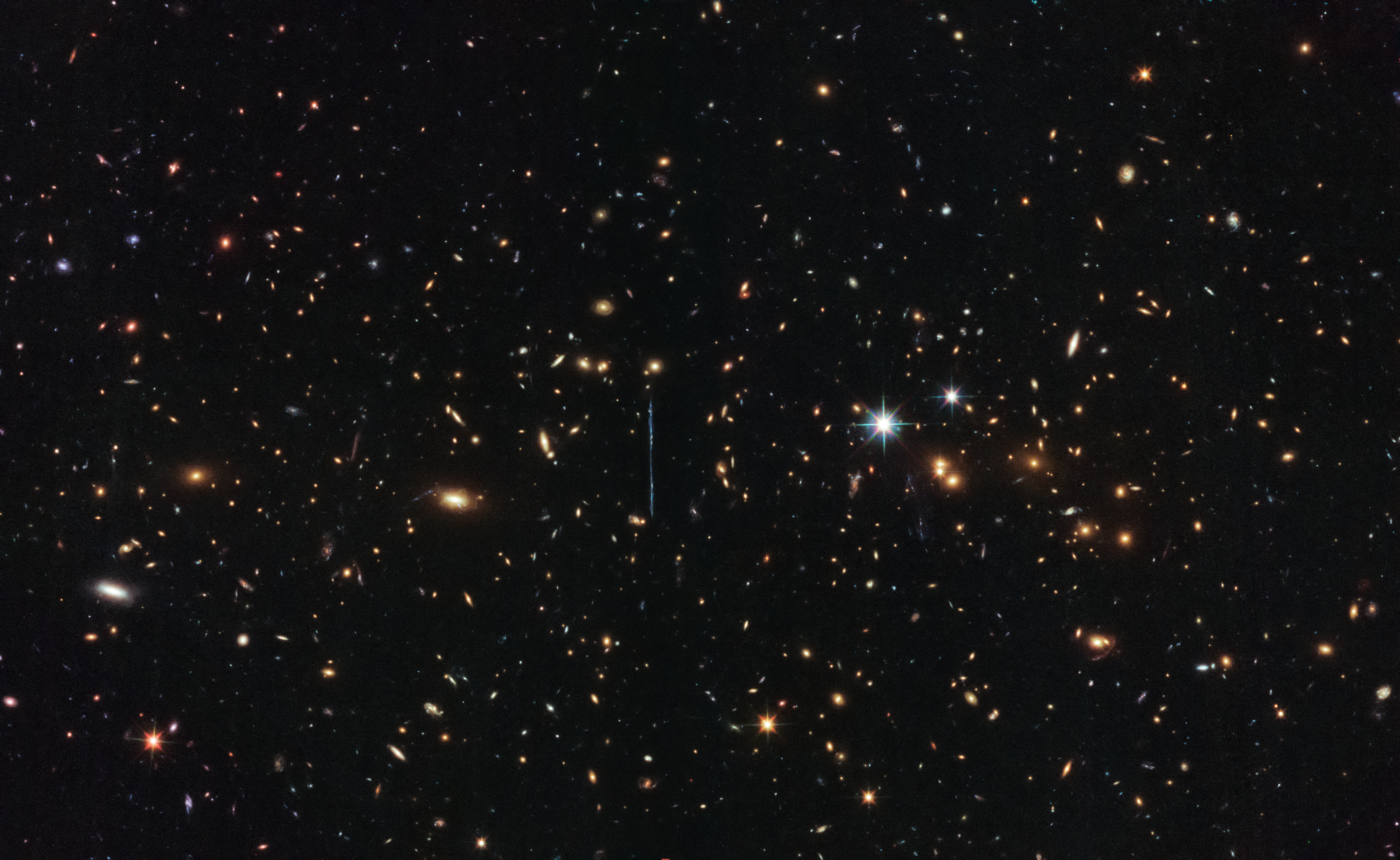 In 2014, astronomers using the NASA/ESA Hubble Space Telescope found that this enormous galaxy cluster contains the mass of a staggering three million billion Suns — so it’s little wonder that it has earned the nickname of “El Gordo” (“the Fat One” in Spanish)! Known officially as ACT-CLJ0102-4915, it is the largest, hottest, and X-ray brightest galaxy cluster ever discovered in the distant Universe. Galaxy clusters are the largest objects in the Universe that are bound together by gravity. They form over billions of years as smaller groups of galaxies slowly come together. In 2012, observations from ESO’s Very Large Telescope, NASA’s Chandra X-ray Observatory and the Atacama Cosmology Telescope showed that El Gordo is actually composed of two galaxy clusters colliding at millions of kilometres per hour. The formation of galaxy clusters depends heavily on dark matter and dark energy; studying such clusters can therefore help shed light on these elusive phenomena. In 2014, Hubble found that most of El Gordo’s mass is concealed in the form of dark matter. Evidence suggests that El Gordo’s “normal” matter — largely composed of hot gas that is bright in the X-ray wavelength domain — is being torn from the dark matter in the collision. The hot gas is slowing down, while the dark matter is not. This image was taken by Hubble’s Advanced Camera for Surveys and Wide-Field Camera 3 as part of an observing programme called RELICS (Reionization Lensing Cluster Survey). RELICS imaged 41 massive galaxy clusters with the aim of finding the brightest distant galaxies for the forthcoming NASA/ESA/CSA James Webb Space Telescope (JWST) to study.